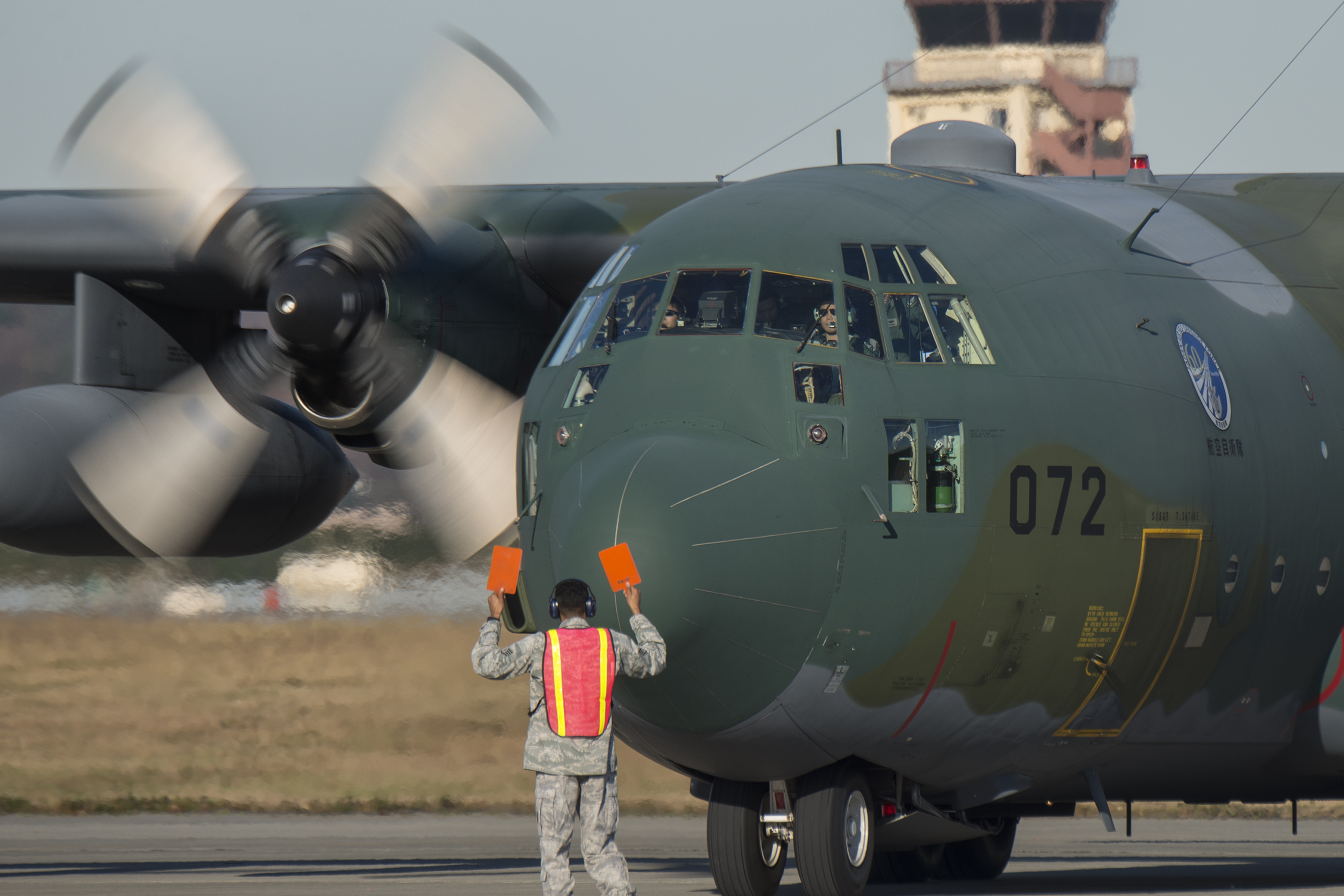 An airman from the 374th Maintenance Squadron marshals a Japan Air Self-Defense Force’s C-130 Hercules at Yokota Air Base, Japan, Dec. 3, 2014. This is the 2nd year the JASDF members from 401st Squadron, Komaki Air Base delivered Operation Christmas Drop donations. (U.S. Air Force photo by Osakabe Yasuo/Released) Unit: 374th Airlift Wing